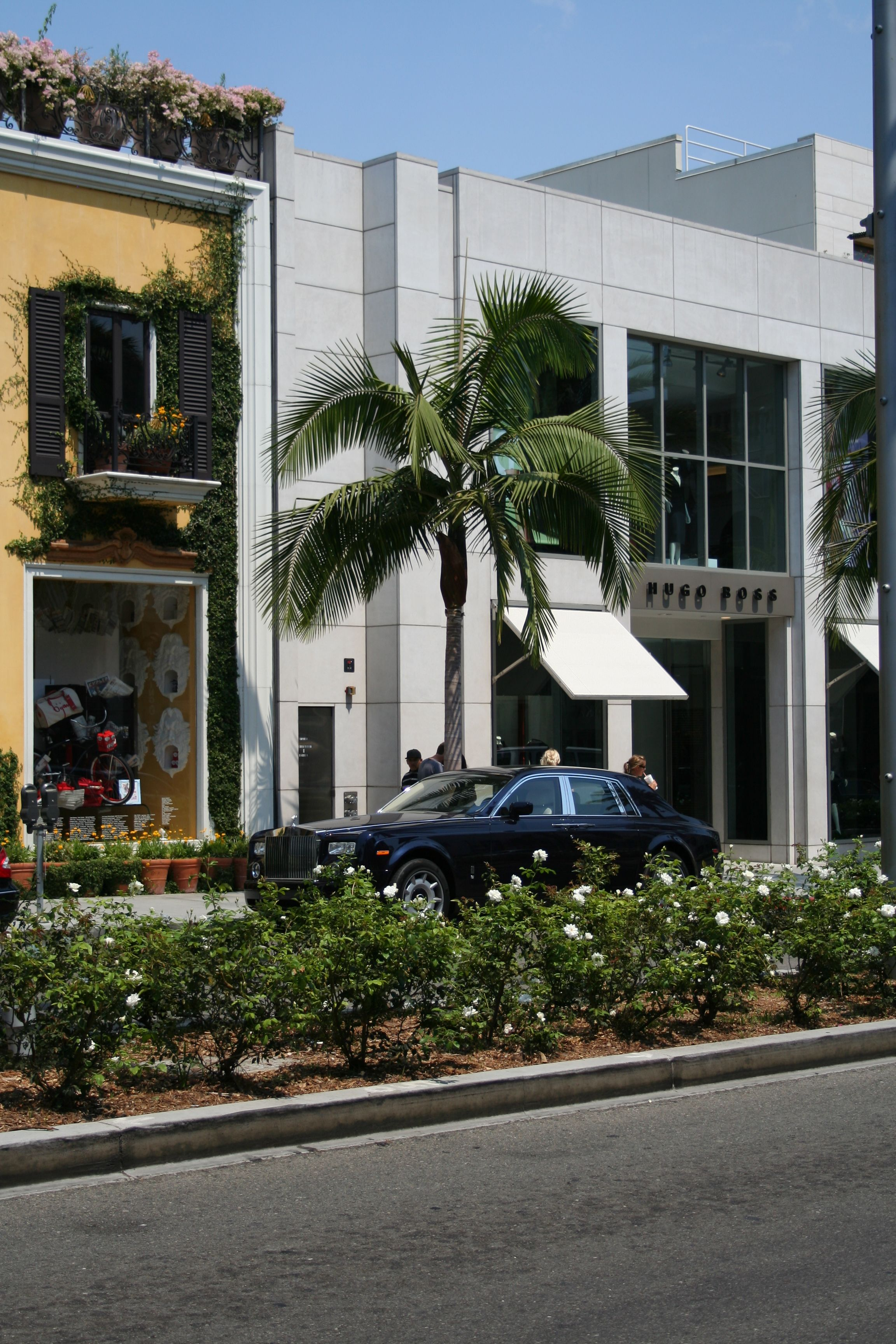 A photograph taken of Rodeo Drive in Beverly Hills California.